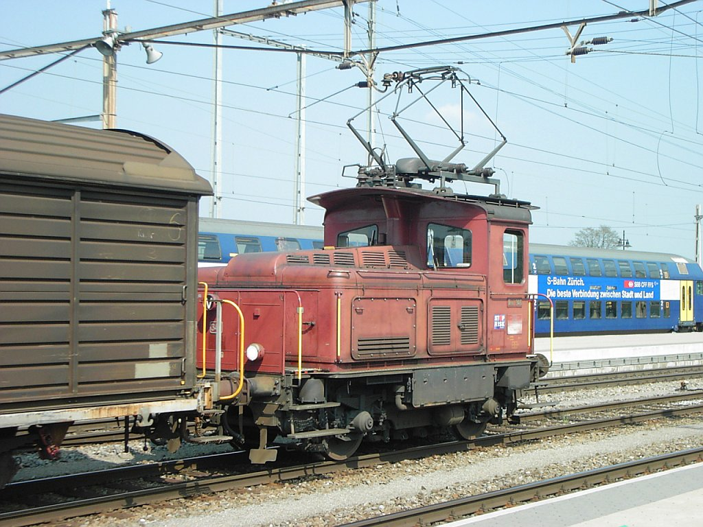 SBB Tem 346 shunter at Pfäffikon SZ